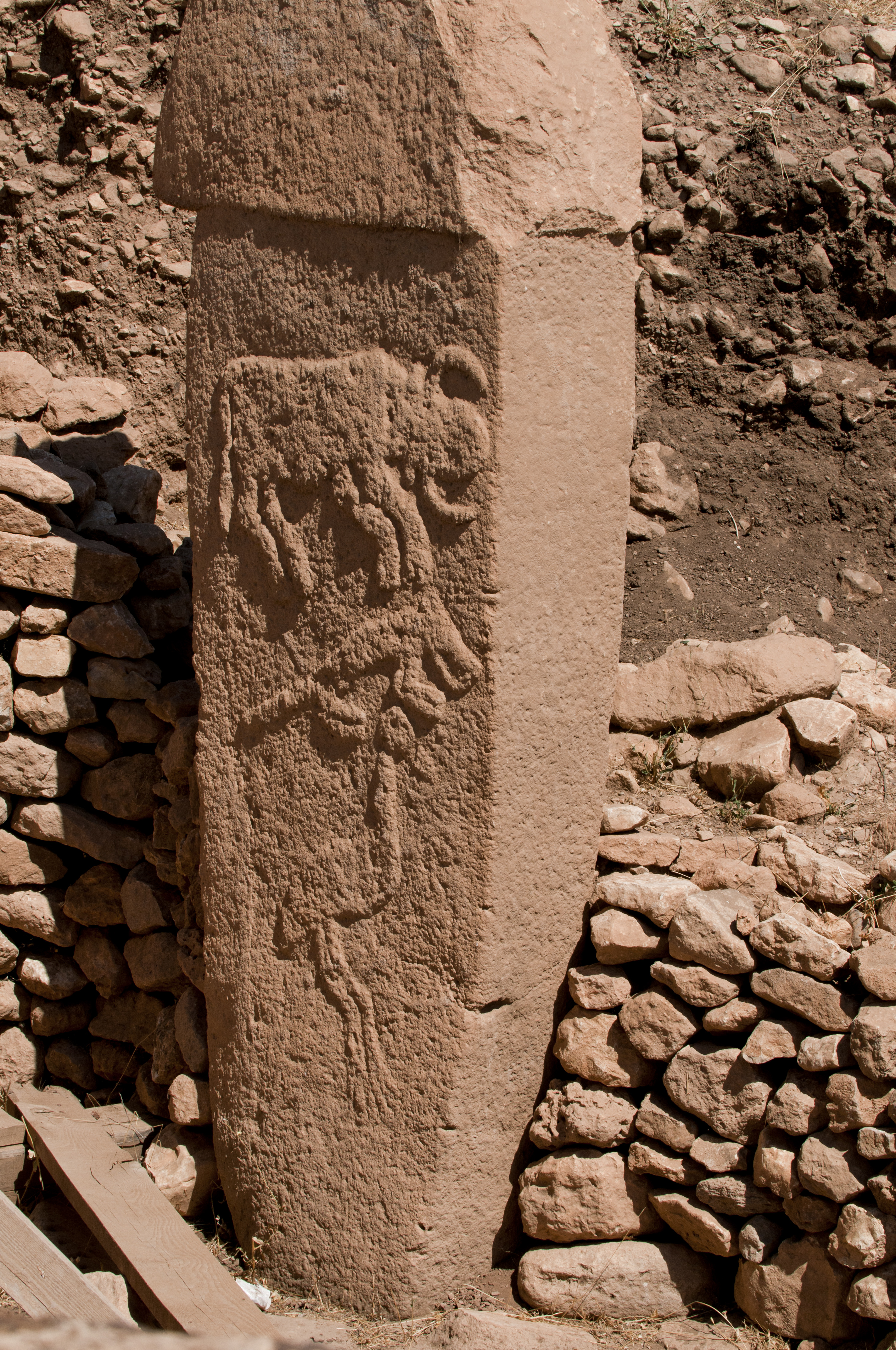 Gobekli Tepe, Urfa